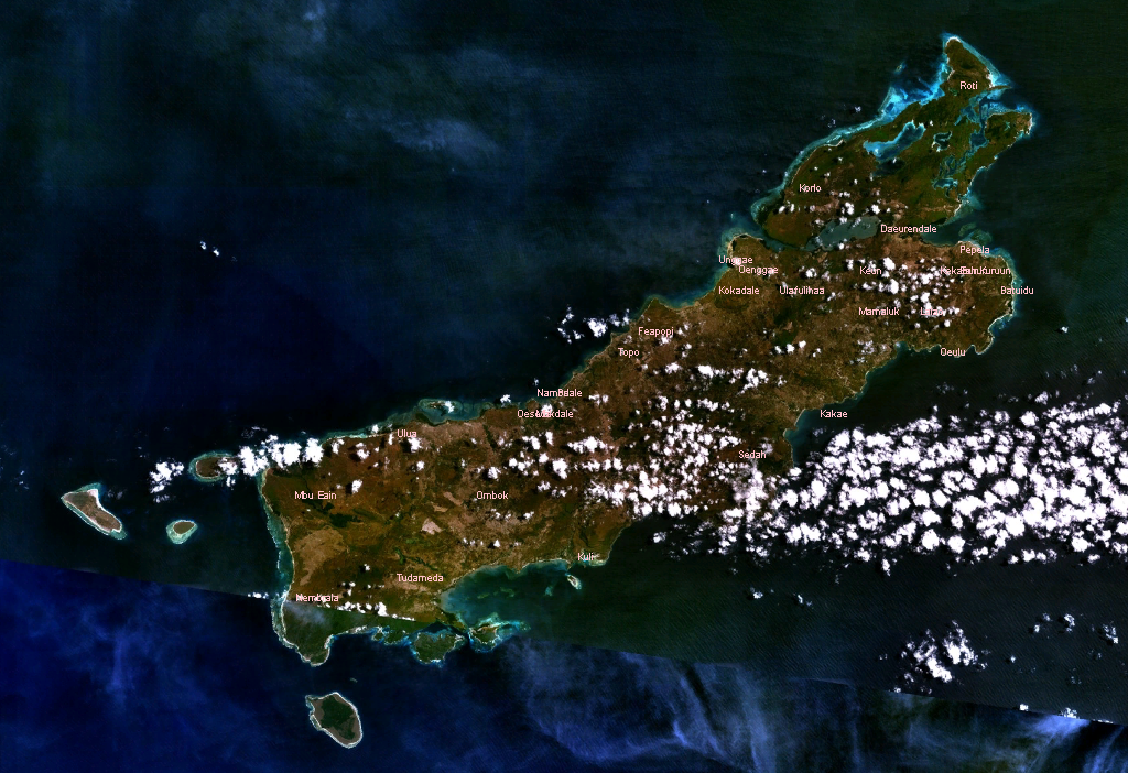 Satellite image of the island of Rote, Indonesia.